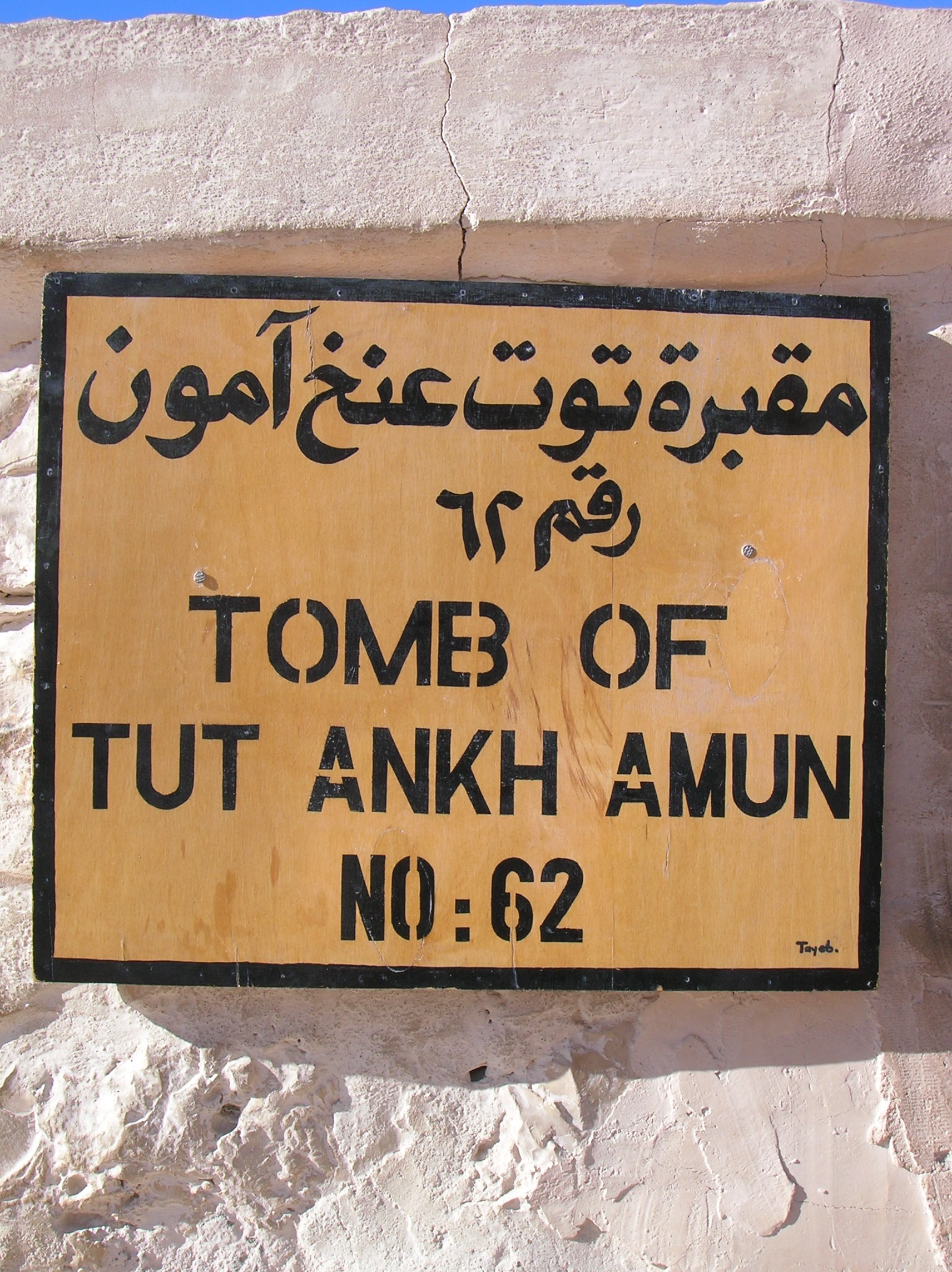 The sign outside of the entrance to tomb of Tutankhamun (KV62) in the Valley of the Kings in Arabic and English. It reads in